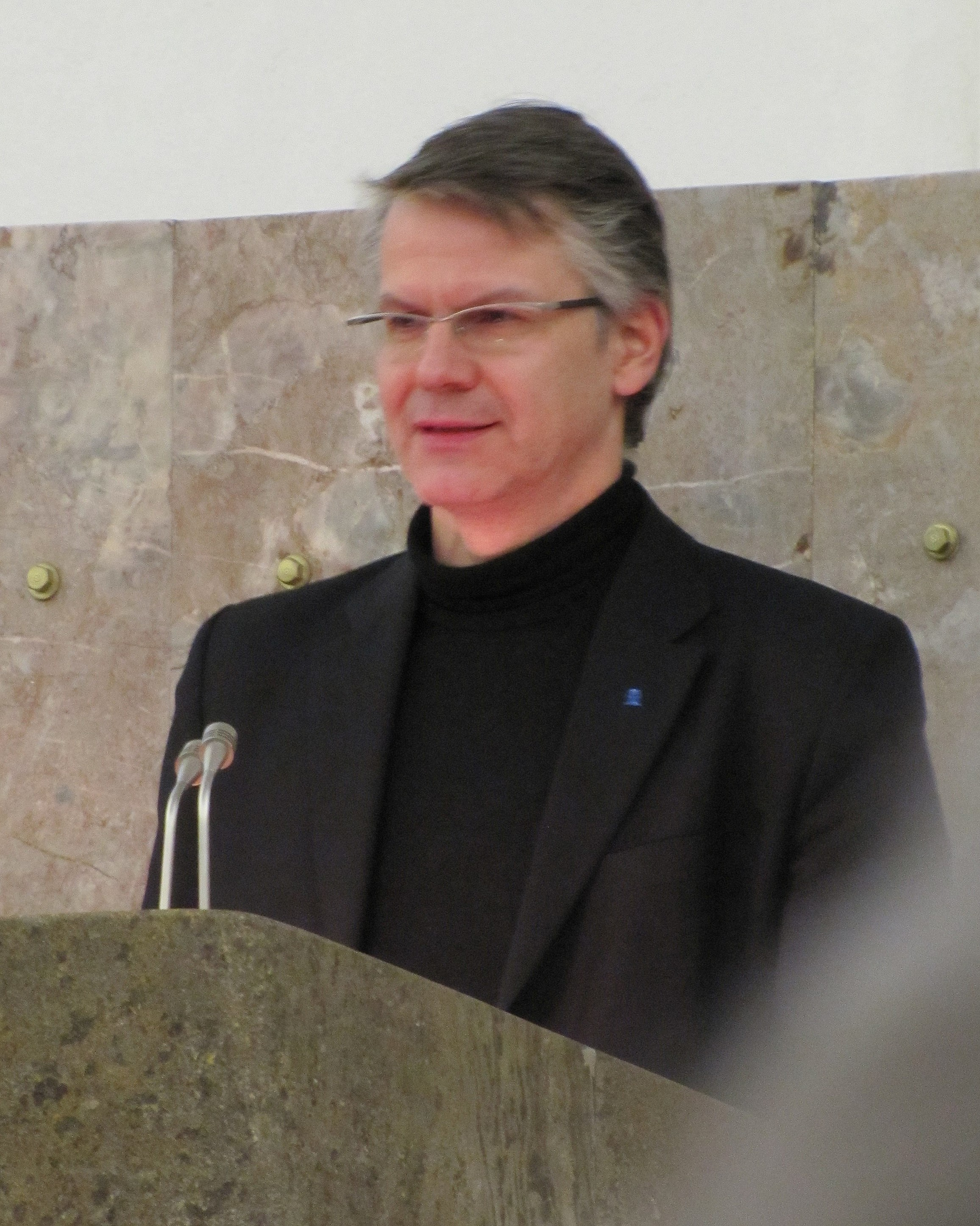 Durs Gruenbein, during his laudatory speech about Barbara Klemm, "Max-Beckmann-Preis 2010", at "Paulskirche" in Frankfurt am Main, Germany.